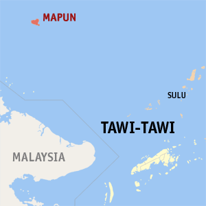 Map of the Tawi-Tawi showing the location of Mapun